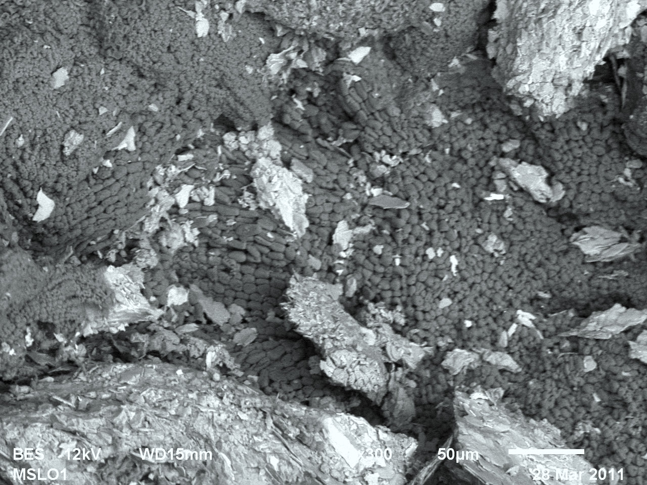 Shadow-mode backscatter SEM of the under-surface of the coralline red alga Lithophyllum orbiculatum, removed from the rock after decalcification in 5% HCl. Fragments of the rock matrix remain attached to the underside. The hypothallus is visible towards the left; the perithallus toward the right. Annotated version available at Template:Lithophyllum underside Photograph of original specimen available at File:Lithophyllum_orbiculatum_037.jpg